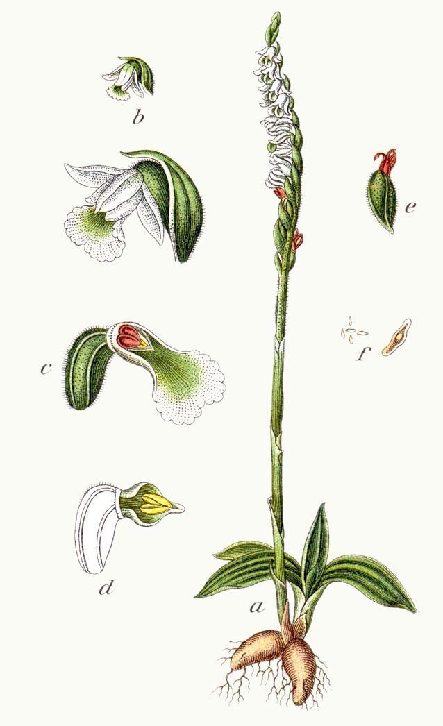 Spiranthes spiralis (L.) Chevall., syn. Spiranthes autumnalis (Balb.) Rich. Original Caption Herbst-Schraubenblume, Spiranthes autumnalis